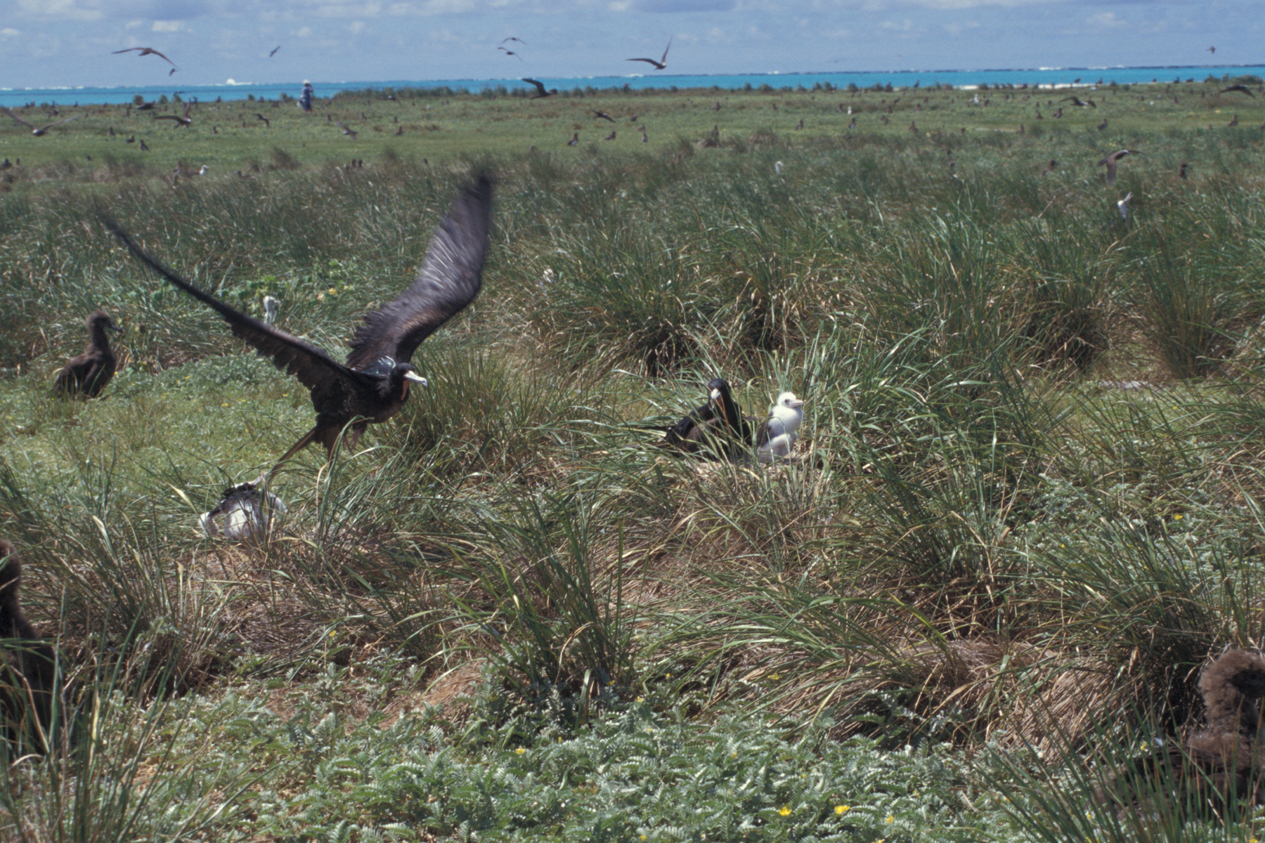 Eragrostis variabilis (with nesting frigates). Location: Pearl and Hermes Atoll, North Island